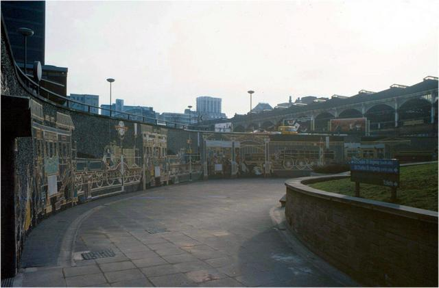 St Chad's Circus, Birmingham, West Midlands, in 1977. To the right is the roof of the former Great Western Railway (GWR) Snow Hill station, which was being demolished as this picture was being taken. The mural on the wall of the pedestrian way in the middle of St Chad's Circus was by Kenneth Budd. It represented the history of the GWR. A major road development started here in late 2006 to replace the roundabout with a traffic light junction. In the process some of the wall has been demolished and this pedestrian area has been filled in. The mural was not preserved and survives only in photographs such as this.